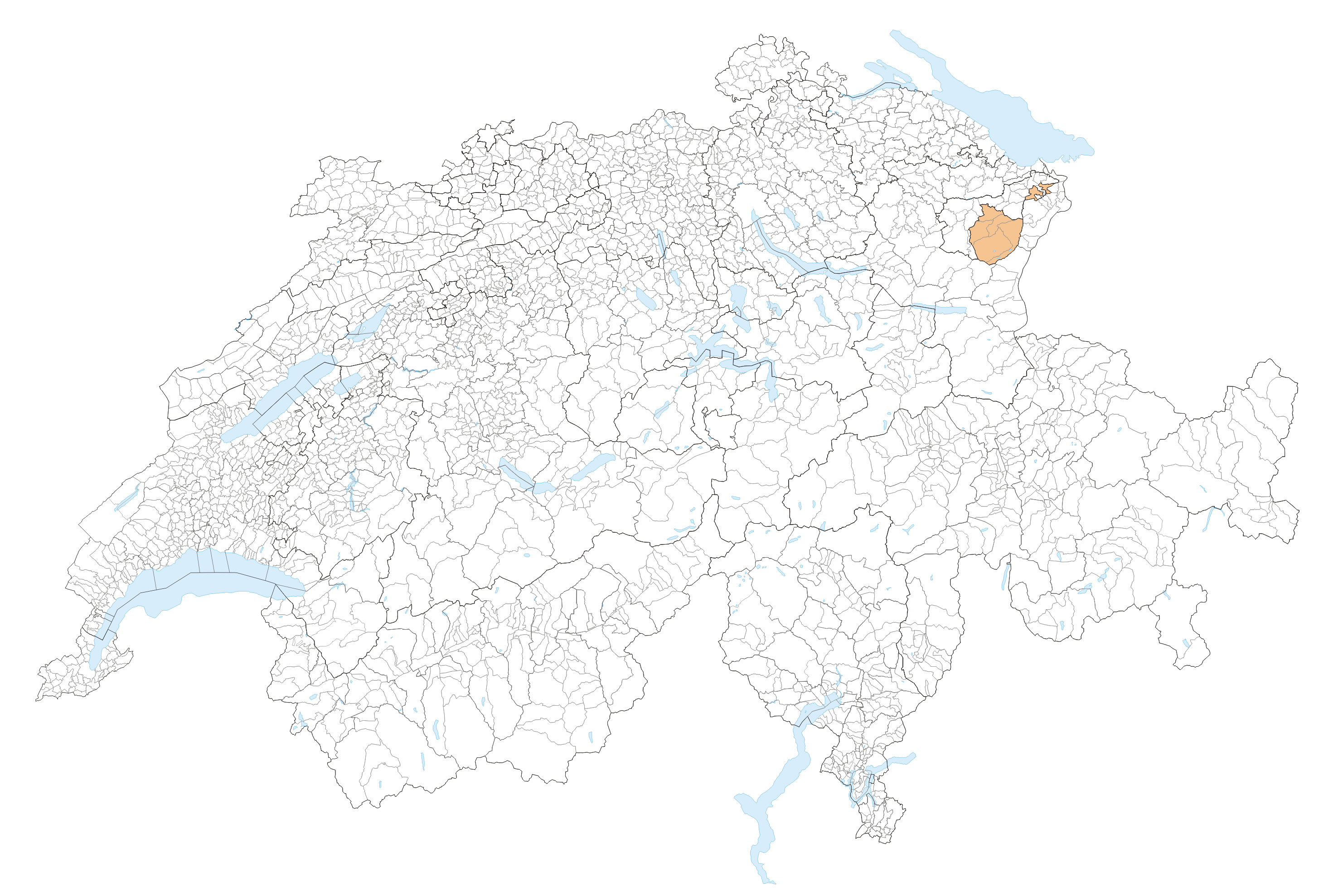 Kanton Appenzell Innerrhoden